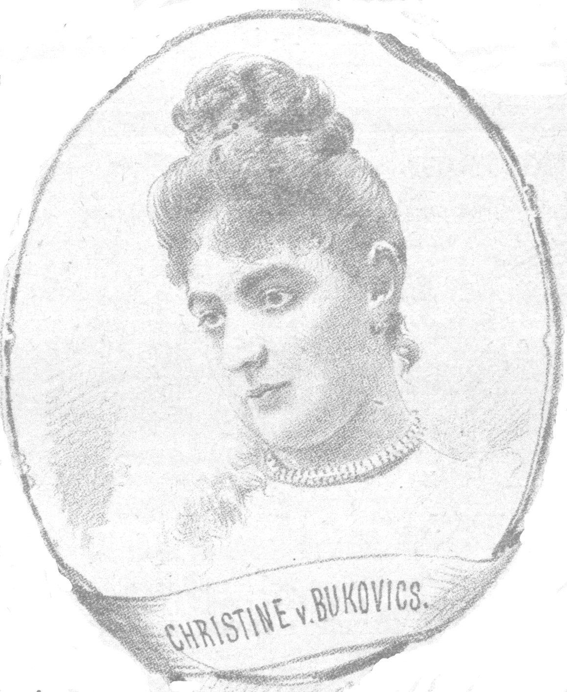 Portrait of Christine von Bukovics (1867-??), Austrian actress.